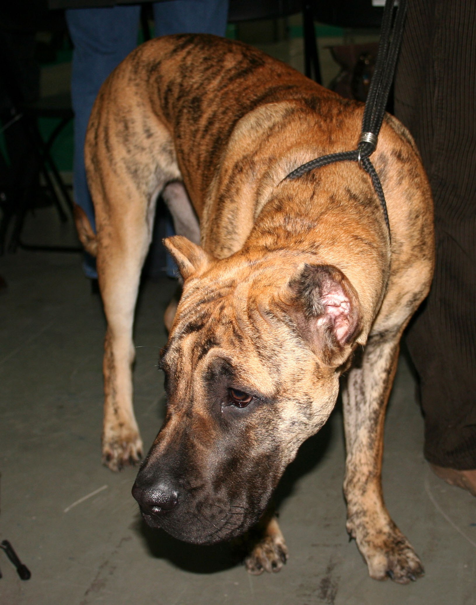 Dogo Canario during world dogs show in Poznań, Poland.